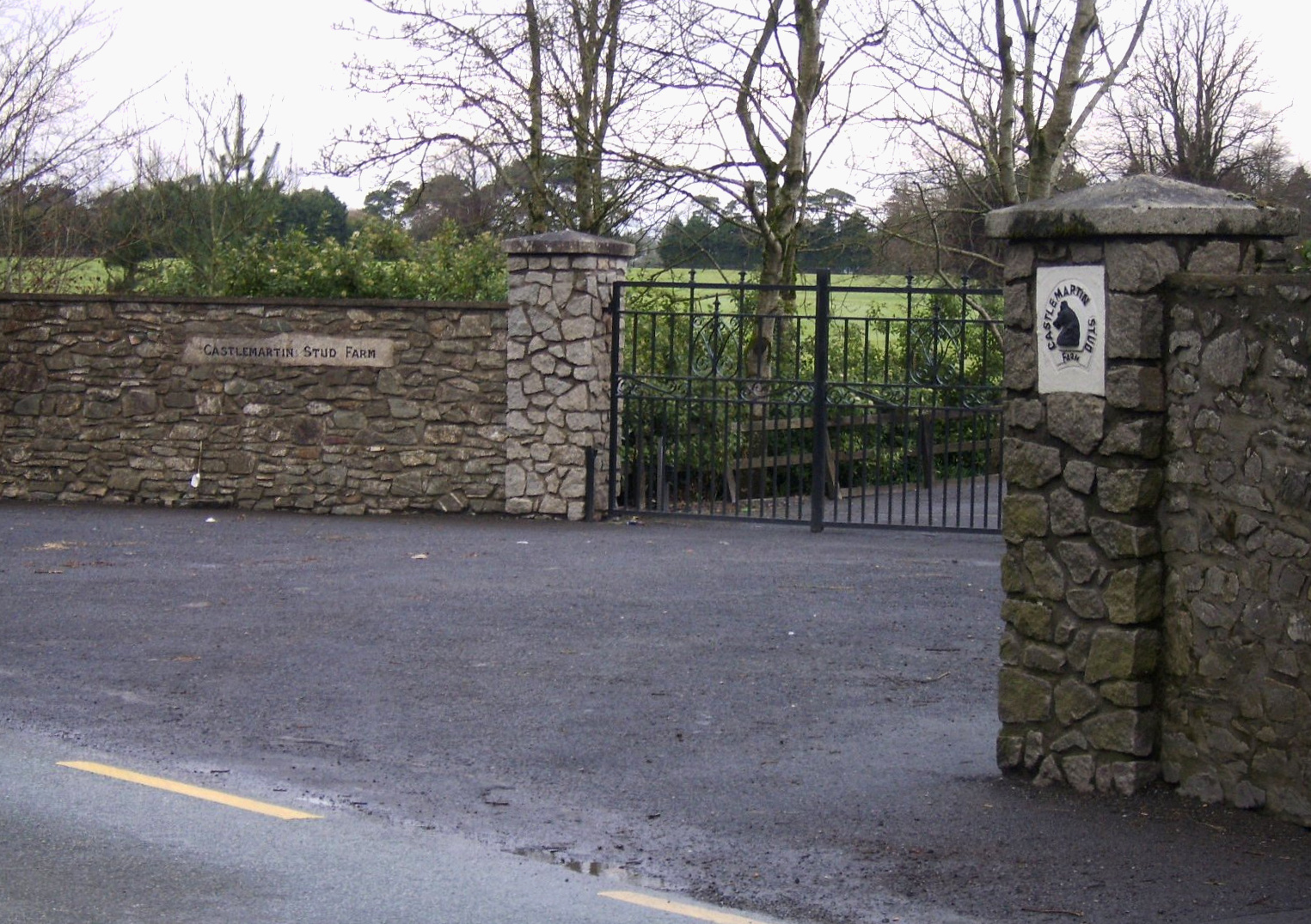 The entryway to the horse stud and cattle farm at Castlemartin, Kilcullen, County Kildare, owned by Lady Chryss and Sir Anthony O'Reilly.